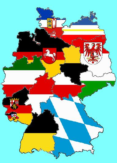 Flags of the German States (Bundesländer) on a map.